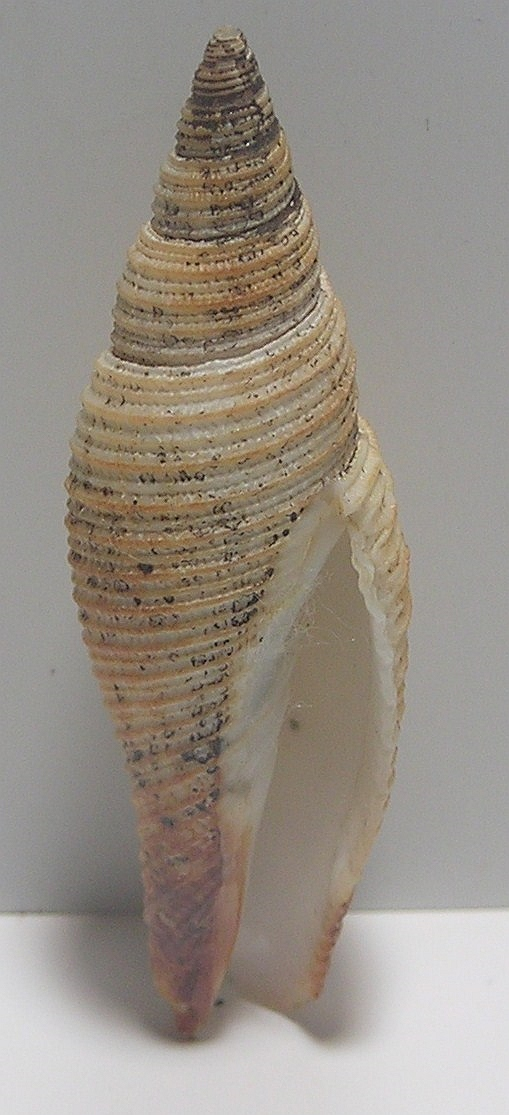 Ziba interlirata (Reeve, 1844), a sea snail from the family Mitridae; Southwest China